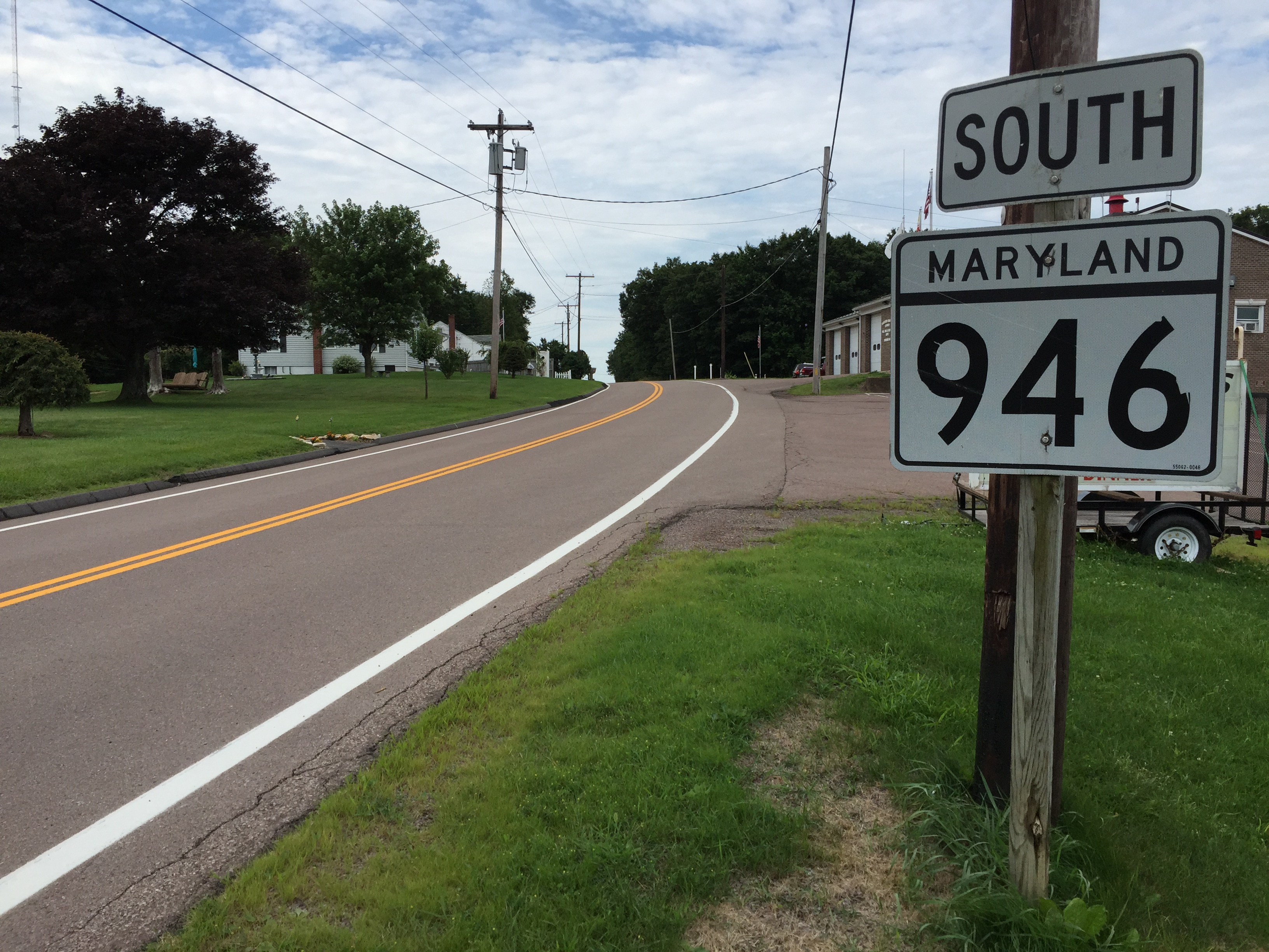 View south along Maryland State Route 946 (Finzel Road) at Maryland State Route 546 (Beall School Road) in Garrett County, Maryland